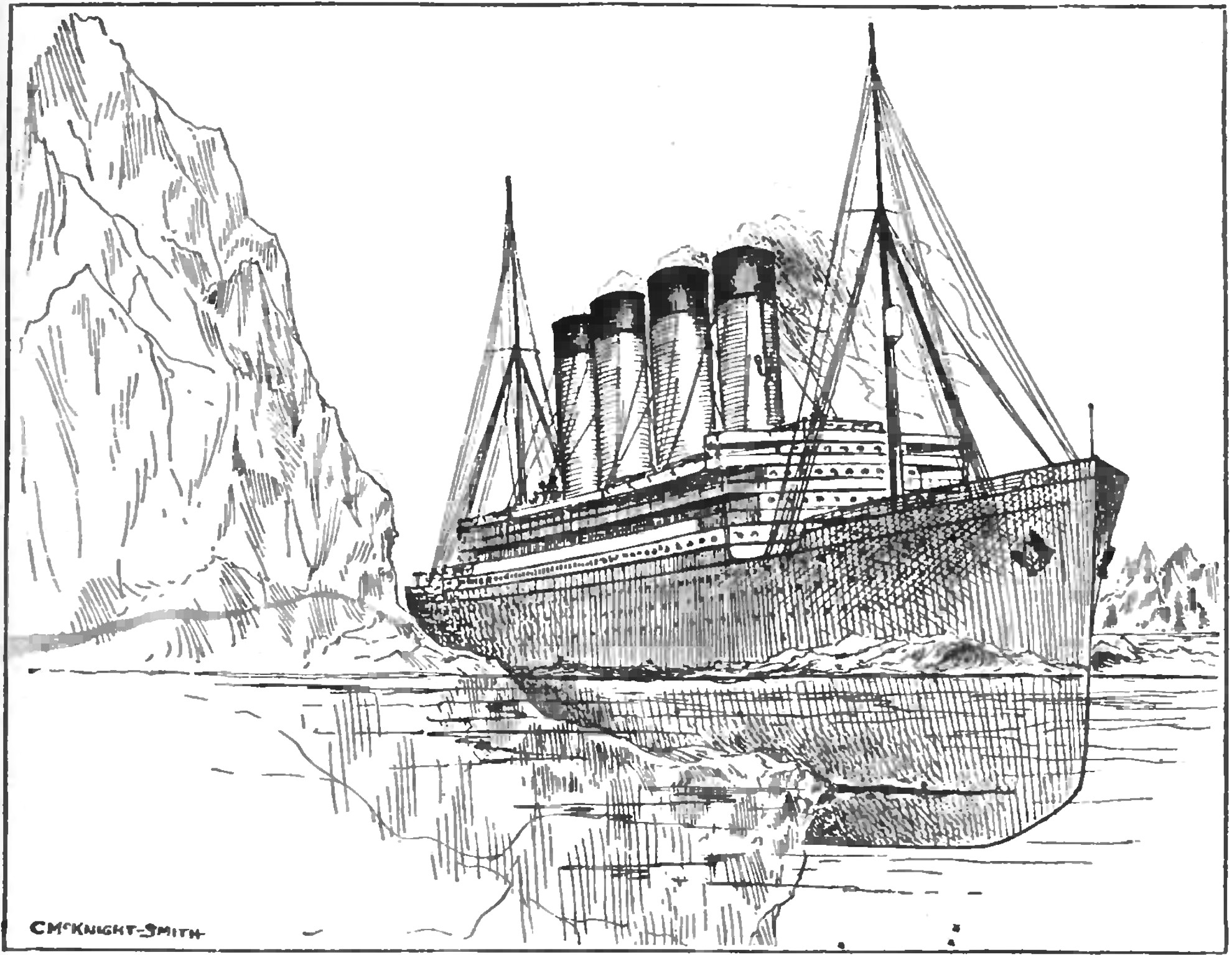 An Unsinkable Titanic, p. 125. The Titanic Struck a Glancing Blow Against an Under-Water Shelf of the Iceberg, Opening up Five Compartments